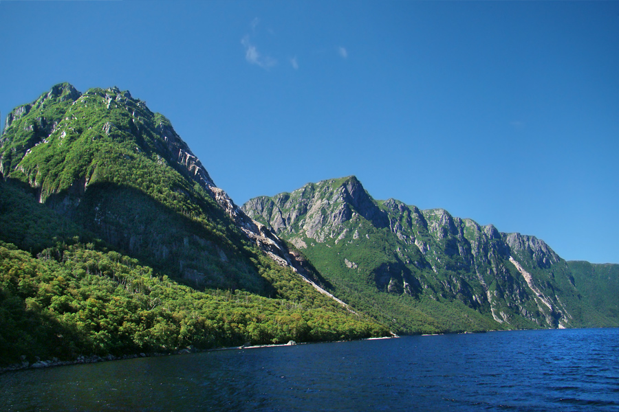 Gros Morne National Park, Western Newfoundland, Canada. Western Brook Pond seen from the cruise boat. The pristine water of the fjord takes 15 years to renew itself, making it a very fragile environment.